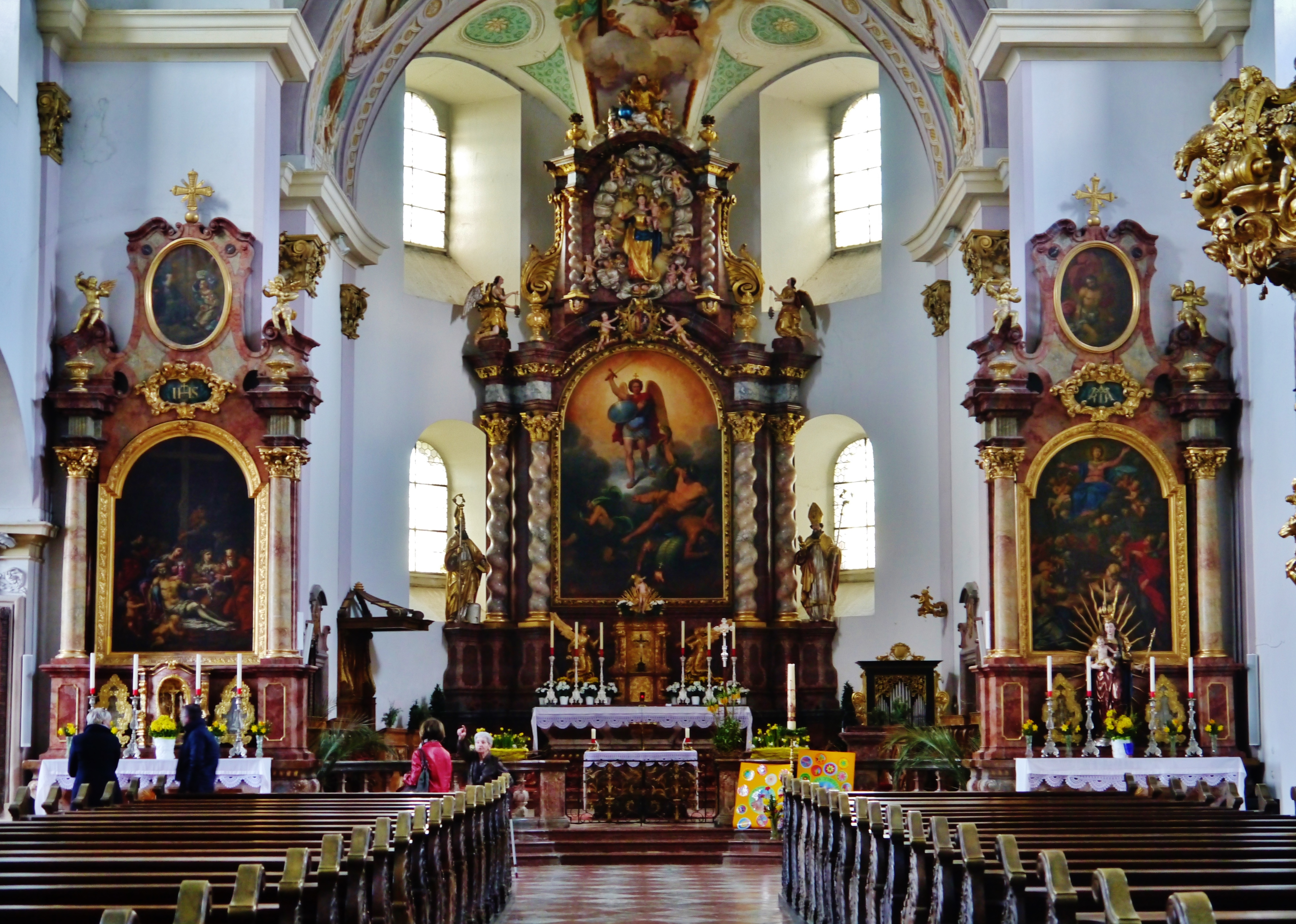 Choir of Reichersberg Abbey Church, Reichersberg, Upper Austria, Austria